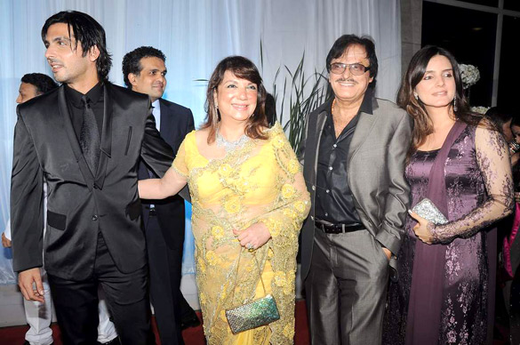 Zayed Khan, Zarine Khan, Sanjay Khan at Esha Deol's wedding reception